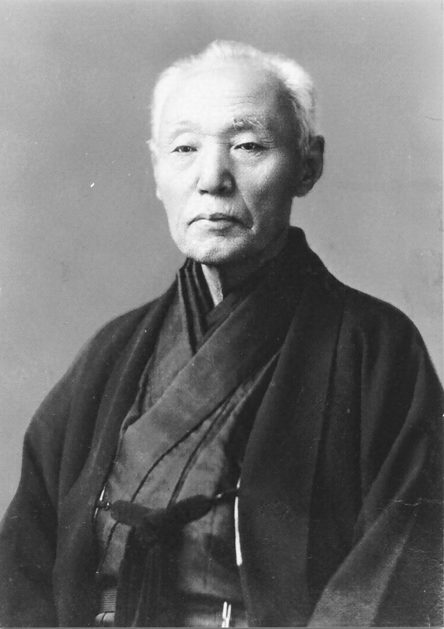 Hisoka Maejima